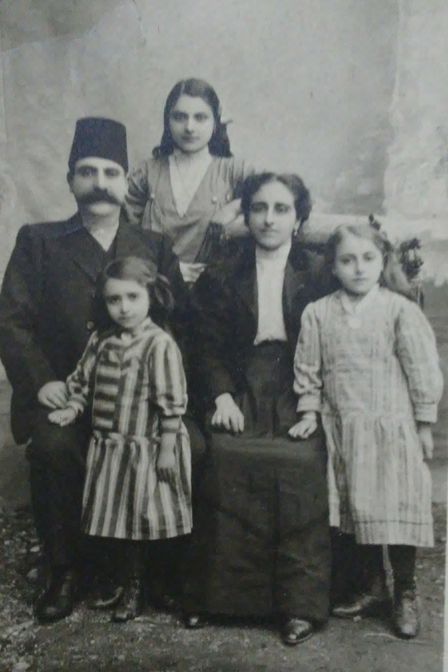 A family killed in the Armenian Genocide: Takvor & Yeghisapet Ashjian & daughters Eugenie, Hamaspur & Mariam. This note on the back by Takvor's niece Makrouhie, the wife of Moses Housepian (Մովսես Հովսեփյան), and the mother of Marjorie Housepian Dobkin (Մարջըրի Հուսեփյան) & Edgar Housepian (Էդգար Հովսեփյան), names them and says the photo was taken in 1908 or 1910, and that they were all killed on the way to Der-el-zor in 1915